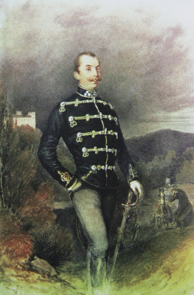 Contemporary drawing of Llewellyn Kast, made by Schnorr Carolsfeld